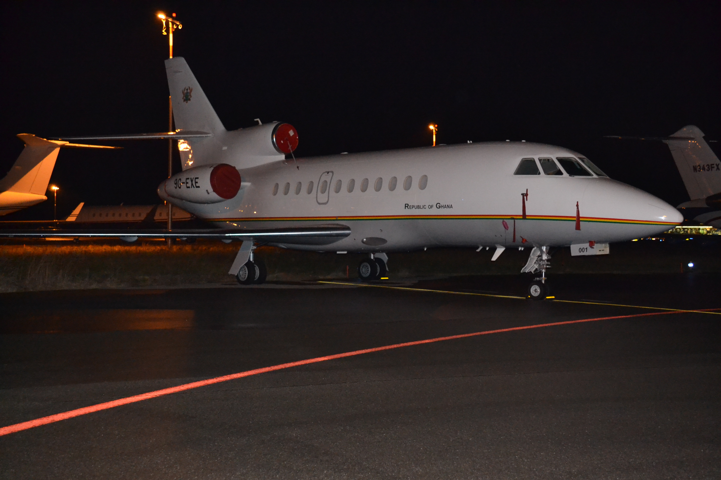 Dassault Falcon 900 EX of the Republic of Ghana (President of Ghana) at Zurich-ZRH